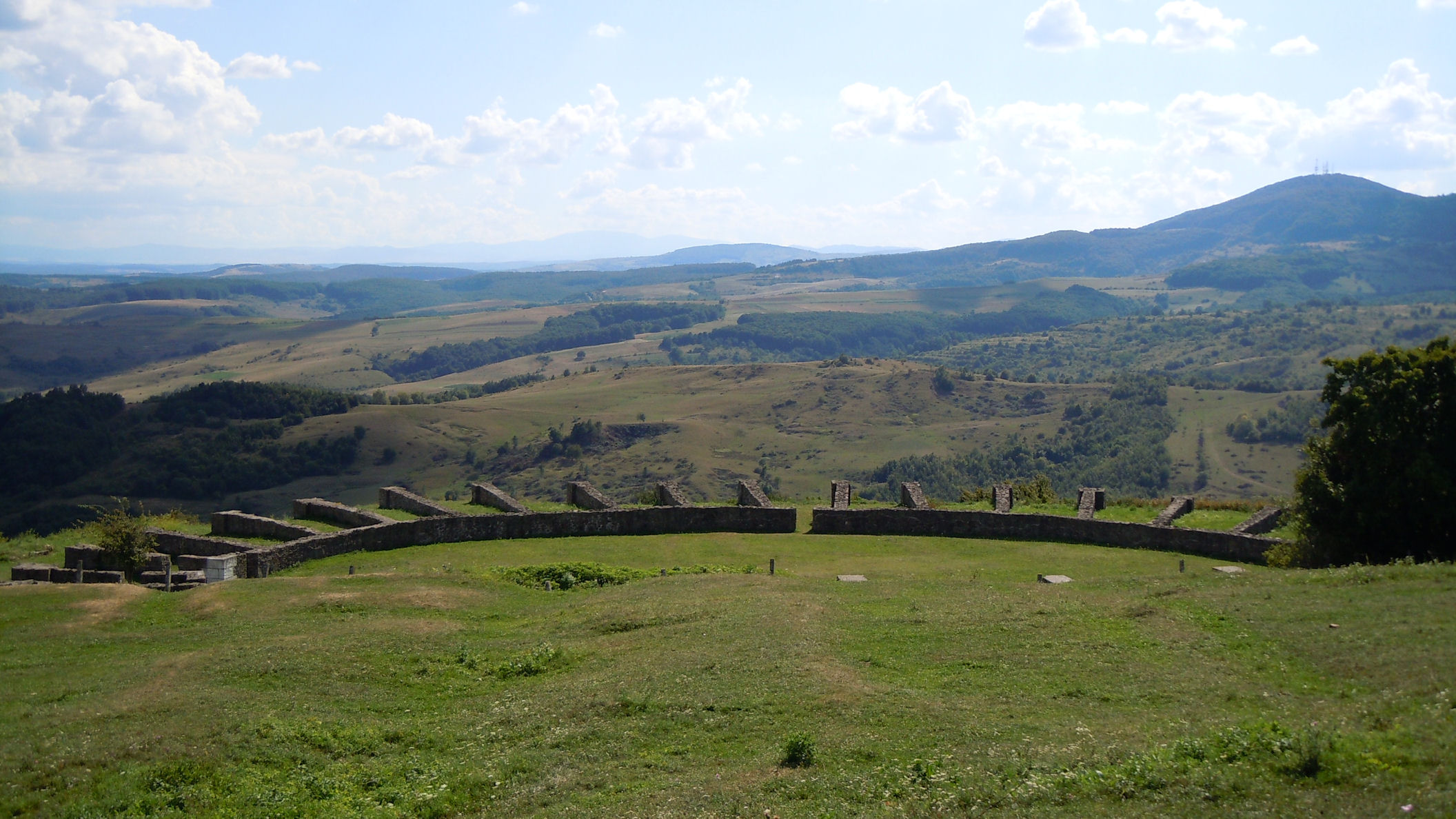 Amphitheater of Porolissum 01